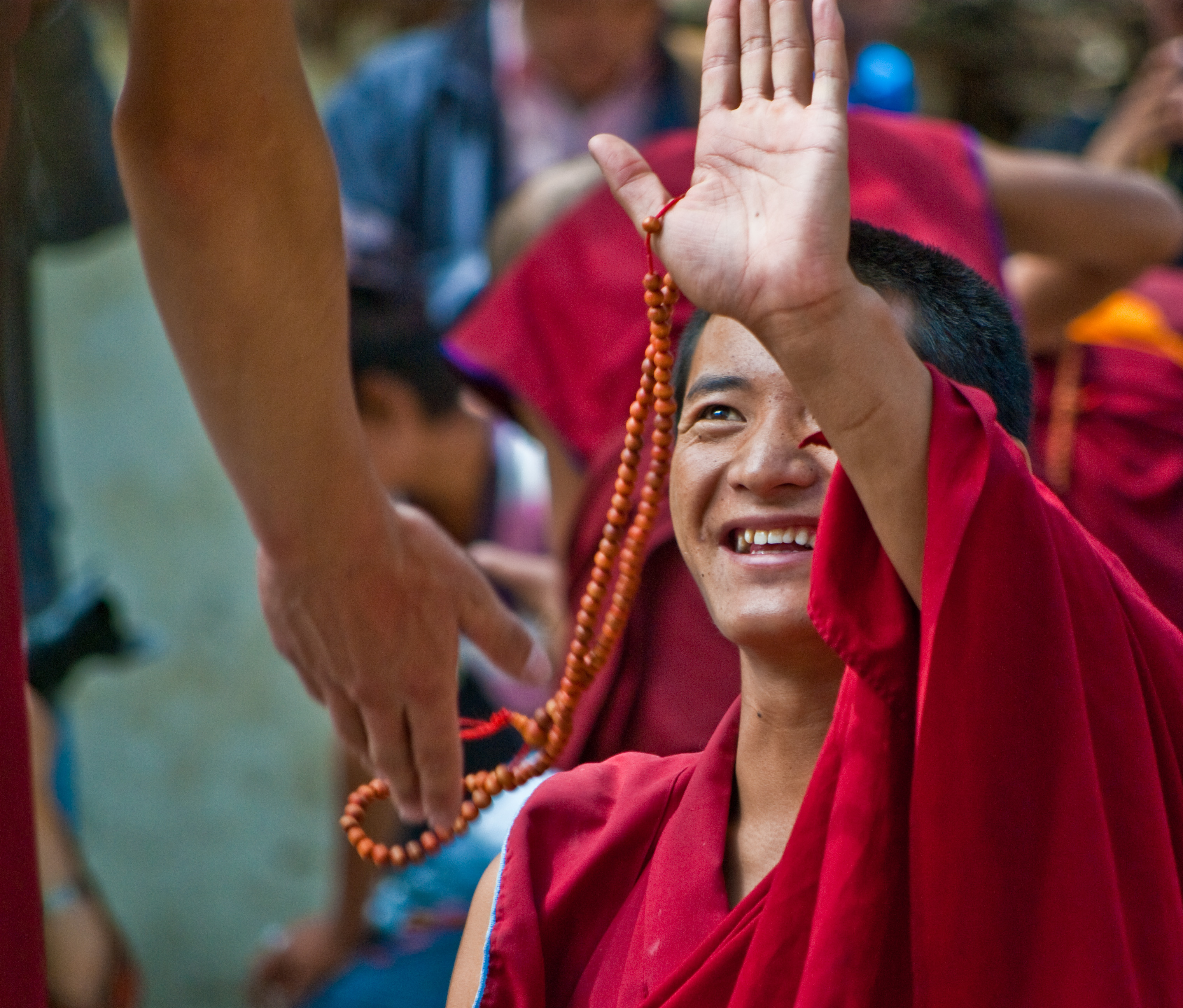 Monks' debate practice at Sera Monastery